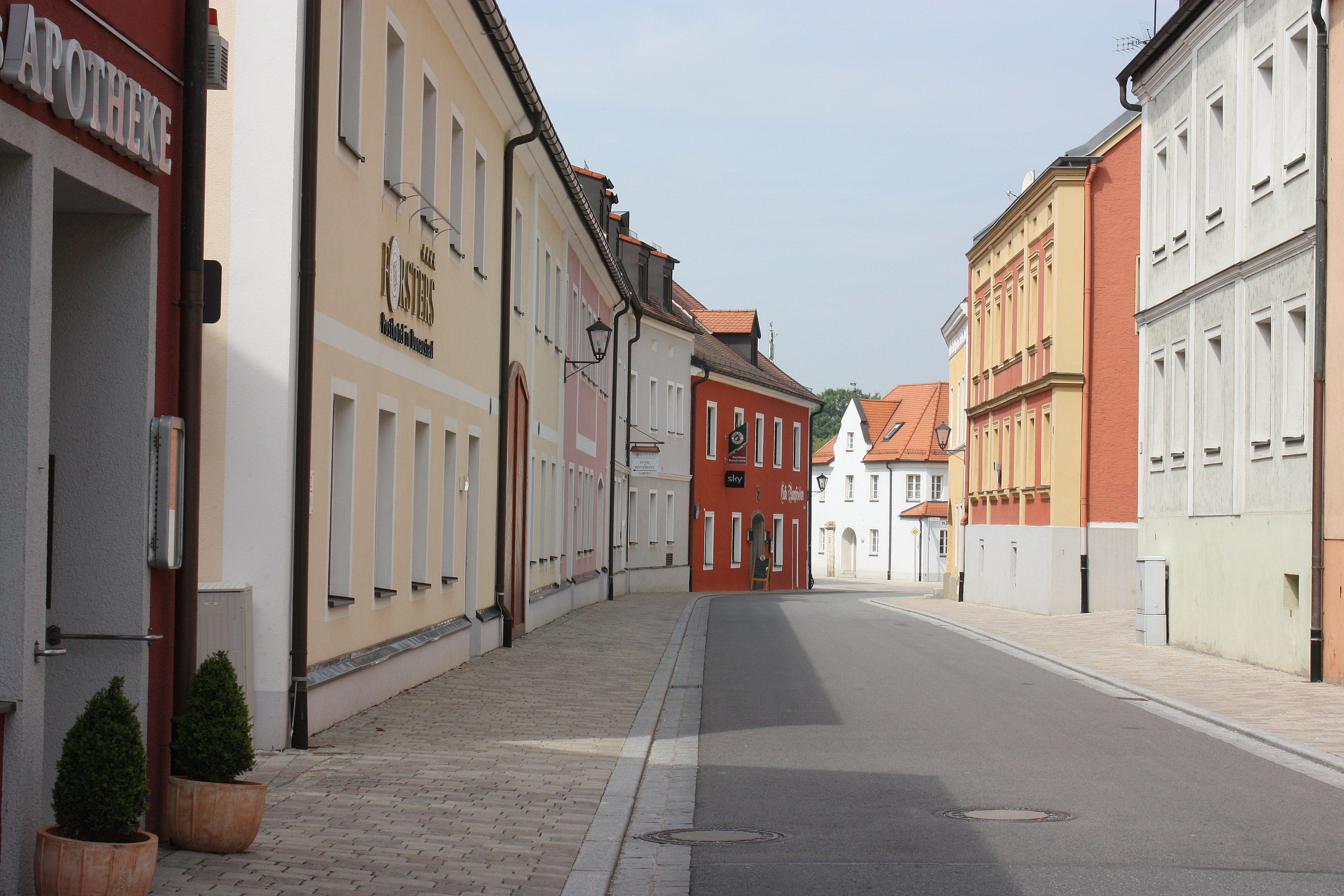 Donaustauf, the Maxstraße